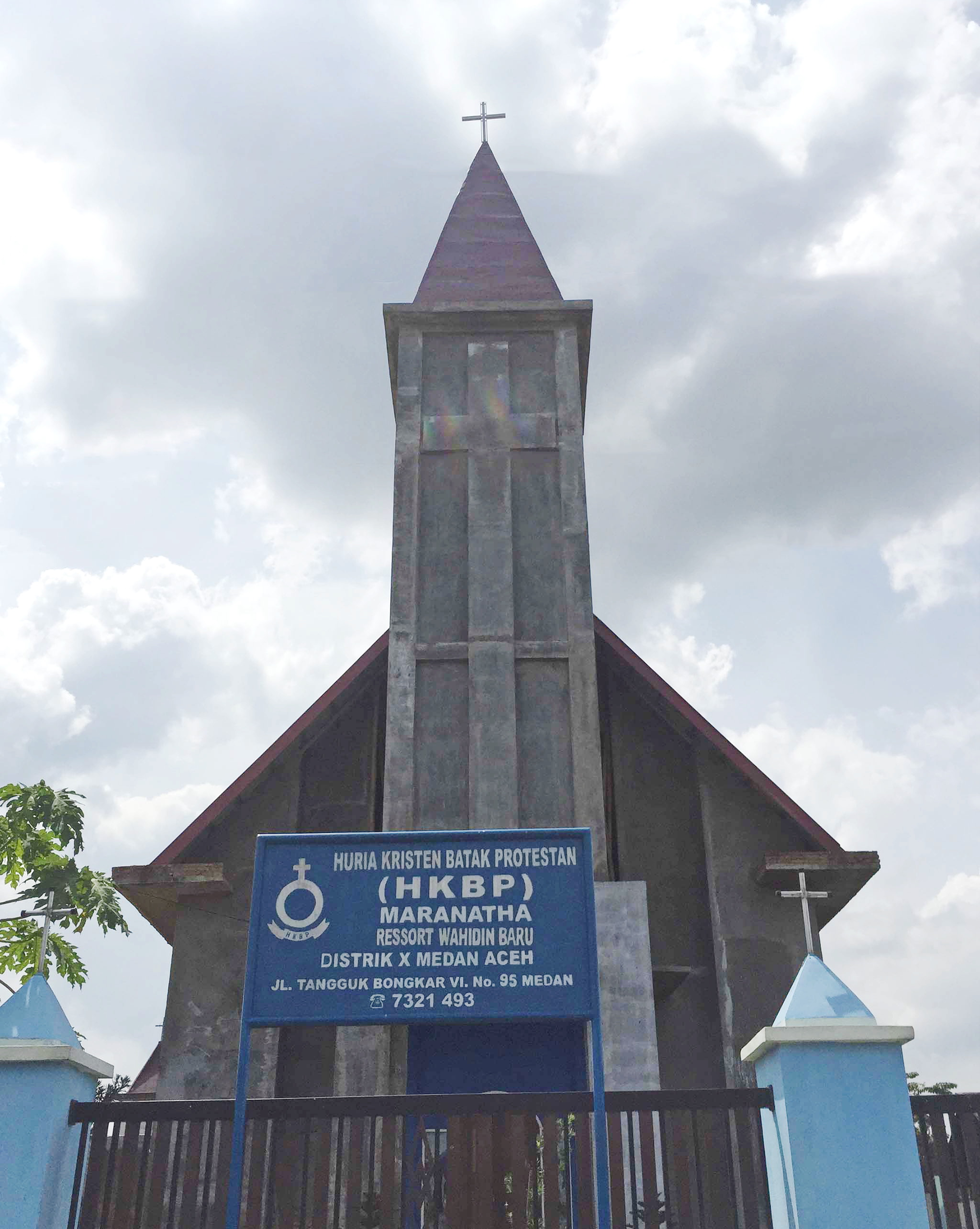 HKBP Maranatha, Res. Wahidin Baru Church in Tegal Sari Mandala II, Medan Denai, Medan